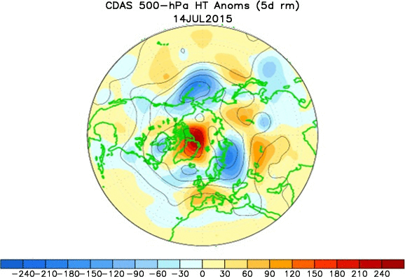 Oscillation Teleconnections polar map CDAS NH 500-hPa HT Heights (5 d rm) 14 jul 2015: Analyzed 500-hPa heights and anomalies. Five-day mean, centered on the date indicated in the title, of 500-hPa heights and anomalies from the NCEP Climate Data Assimilation System (CDAS). Contour interval for heights is 120 m, anomalies are indicated by shading. Anomalies are departures from the 1981-2010 daily base period means. (Text after NOAA, Northern Hemisphere 500 hecto Pascals Height Anomalies Animation)Illustrates a polar high and beginning of second European summer heat wave 2015: 40°C in Spain.